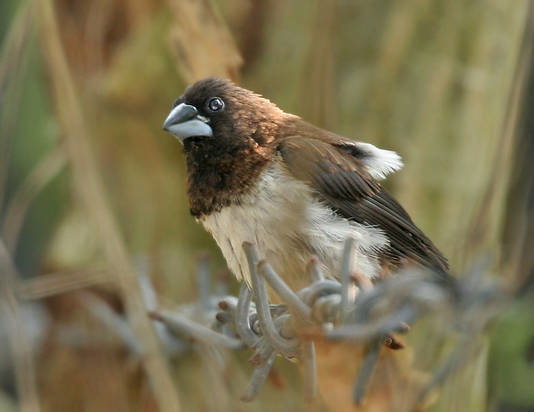 White-rumpedMunia Lonchura striata in Kolkata, West Bengal, India.